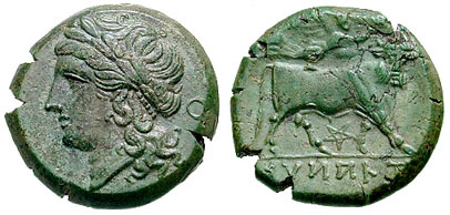 Campania, Teanum Sidicinum. Circa 265-240 BC. Æ Obol or Litra? (5.64 g). Laureate head of Apollo left; O behind Man-headed bull standing right, being crowned by Nike who flies above; pentagram below. TIANUD in Oscan alphabet in exergue SNG ANS 617-618; BMC Italy pg. 126, 11; SNG Copenhagen 592 var. (ethnic on obverse); SNG Morcom 189; Laffaille 22 var. (ethnic on obverse); Weber 413. EF, choice green patina, a few small splits on the edge.